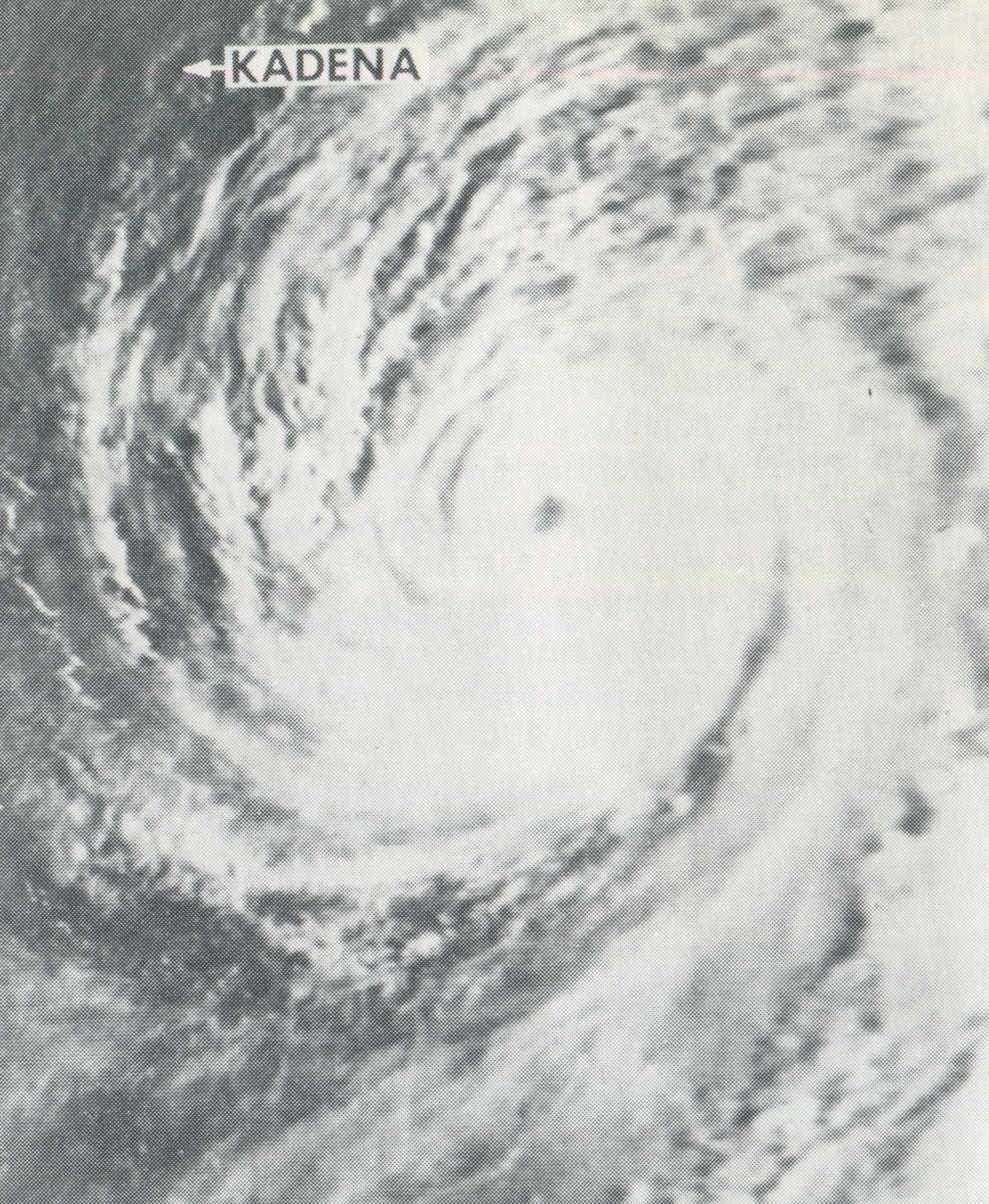 This DMSP weather satellite picture of Typhoon Billie was taken on August 7, 1976